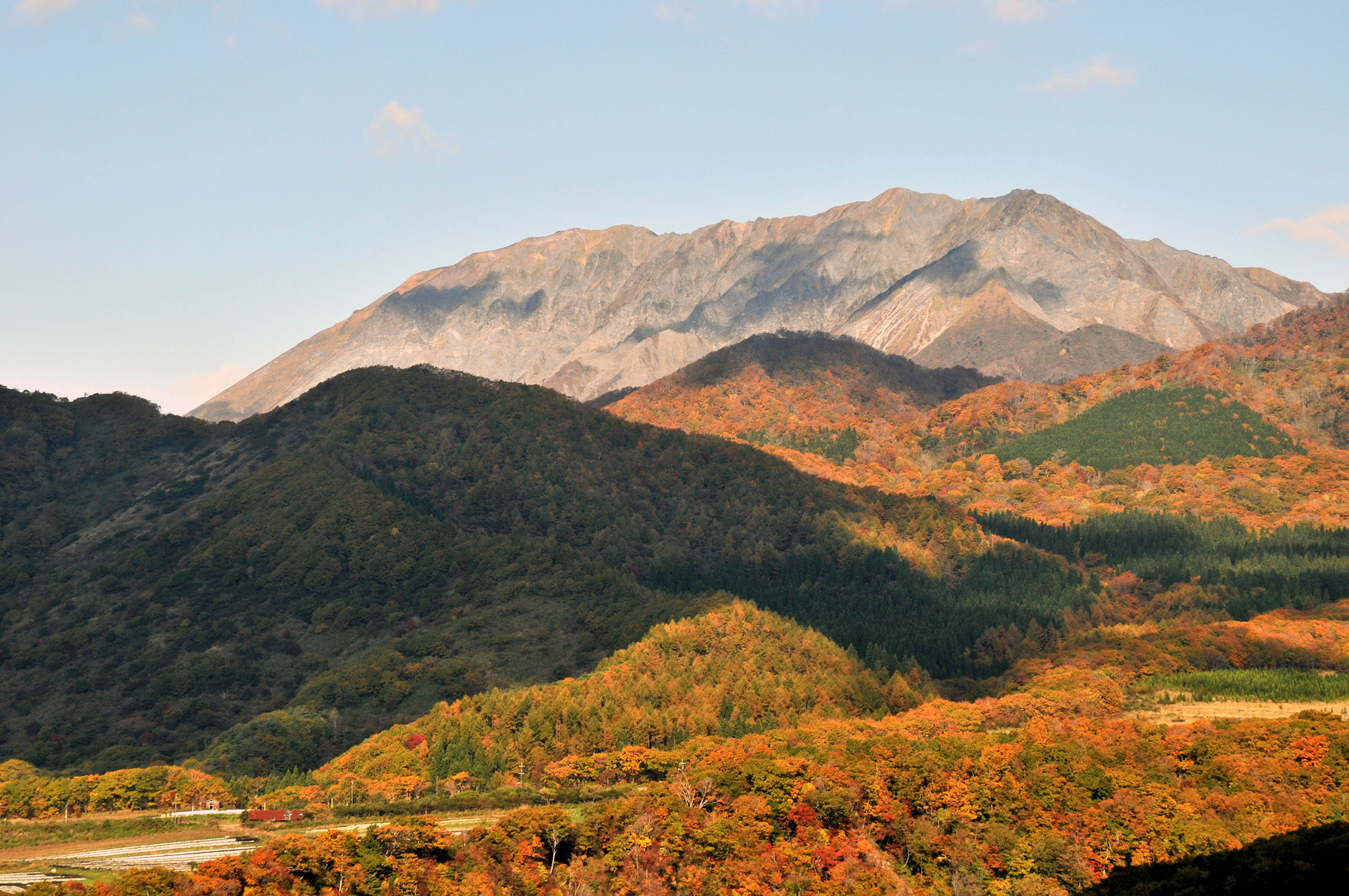 Mt. Daisen from Kimendai